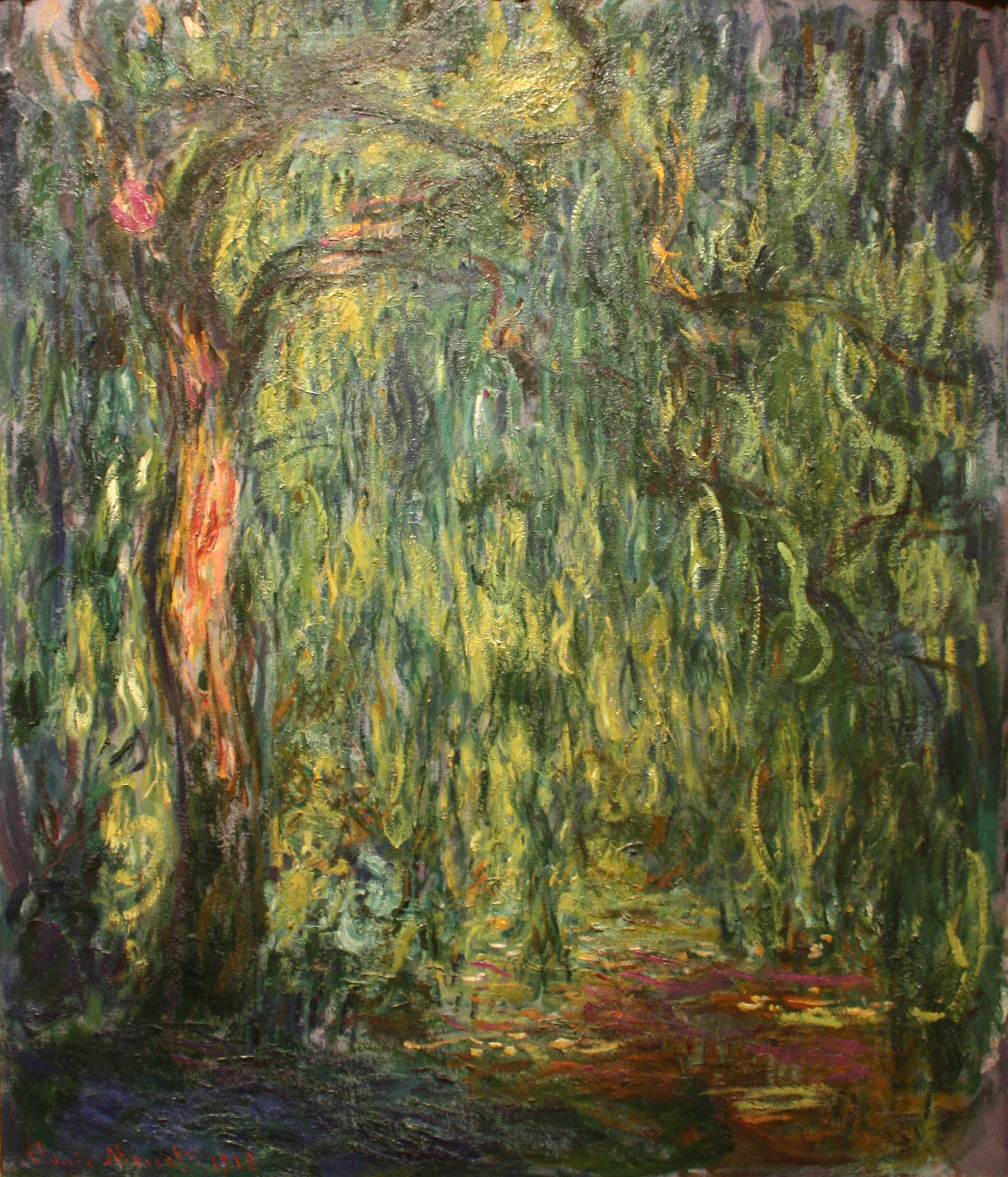 Subject is a willow tree at the edge of Monet's water lilly pond.